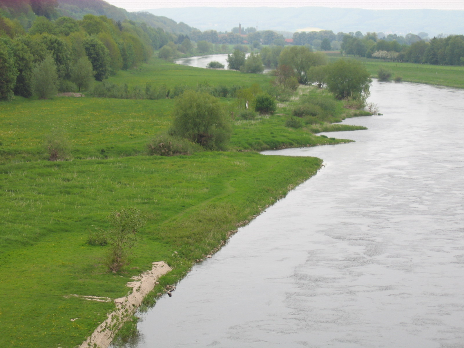 in Vlotho, District of Herford, North Rhine-Westphalia, Germany.